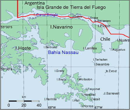 Map of the east side of the Beagle Channel